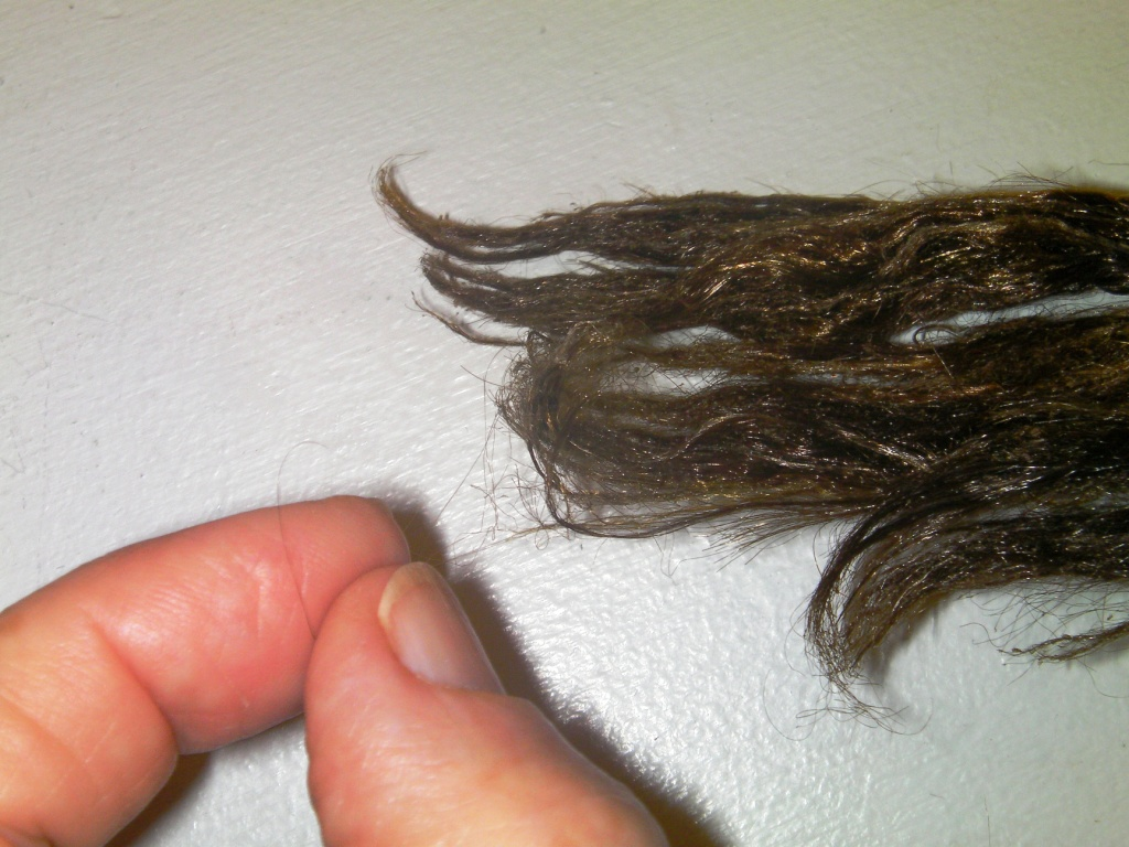 I took this photo myself at the Smithsonian during a visit to Washington, D.C.